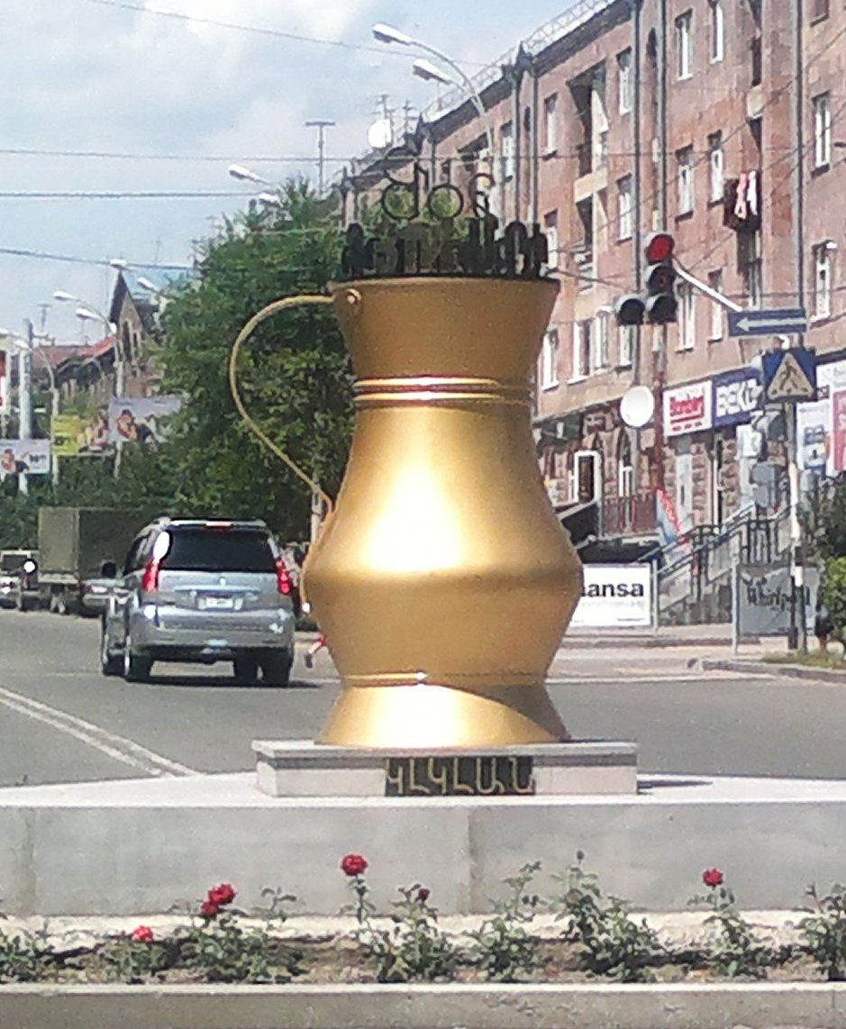 Mushurba statue in Gyumri 2, Cropped